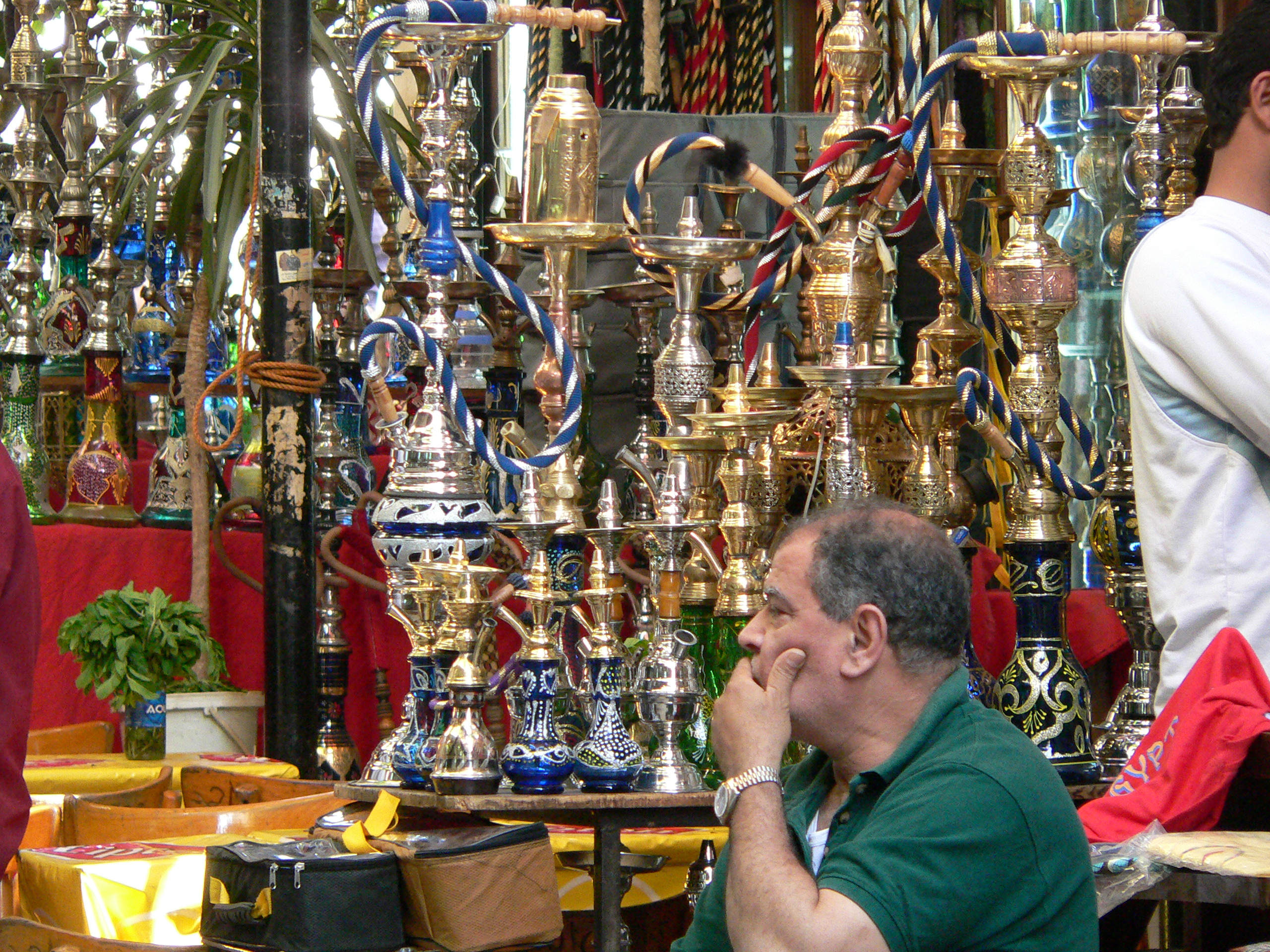 Sheesha dealership in Cairo souk April 2005 M. Disdero